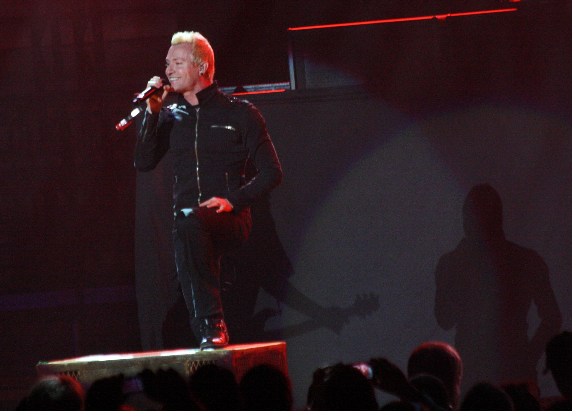 Trevor McNevan performing with his band Thousand Foot Krutch on the Rock and Worship Road Tour in the Resch Center in Green Bay, Wisconsin